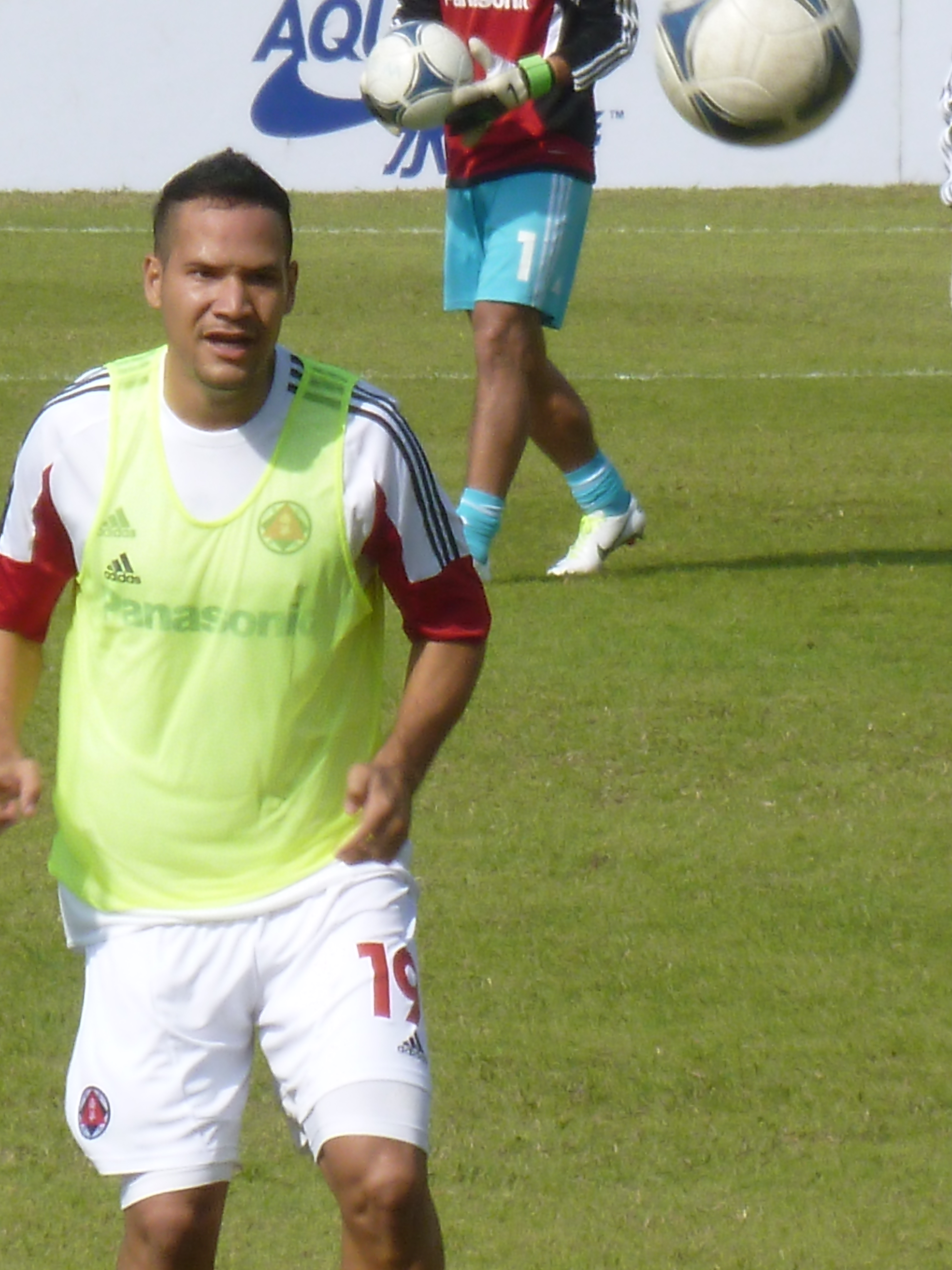 Dhiego de Souza Martins (5 Jan 2013, Senior Shield, Citizen vs South China, Mongkok Stadium) 中文（香港）: 迪亞高 (5 Jan 2013, 高級組銀牌準決賽次回合, 公民 vs 南華, 旺角大球場)